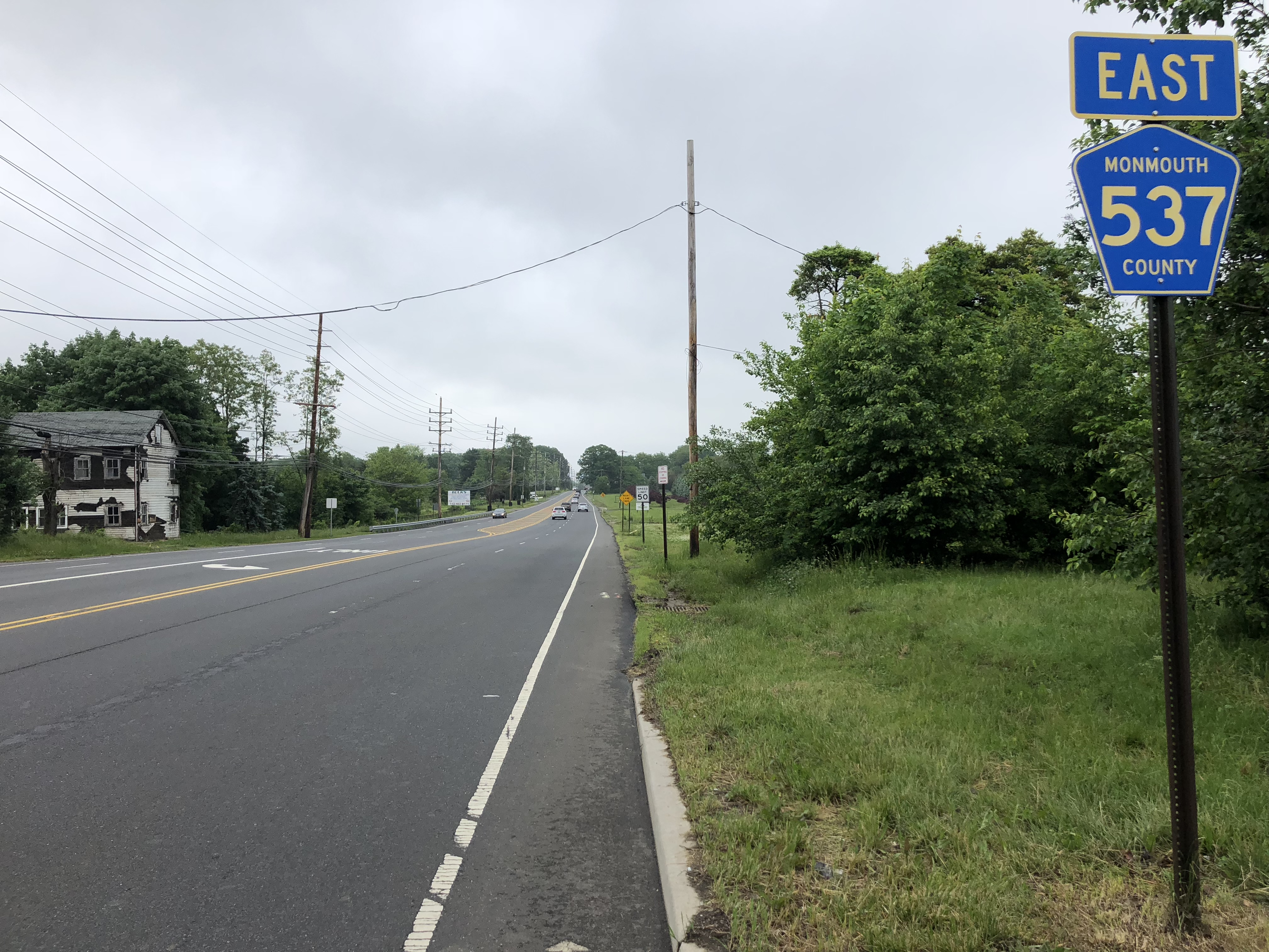 View east along Monmouth County Routes 524 and 537 (Monmouth Road) at Monmouth County Route 527 (Siloam Road/Woodsville Road) on the border of Manalapan Township and Freehold Township in Monmouth County, New Jersey